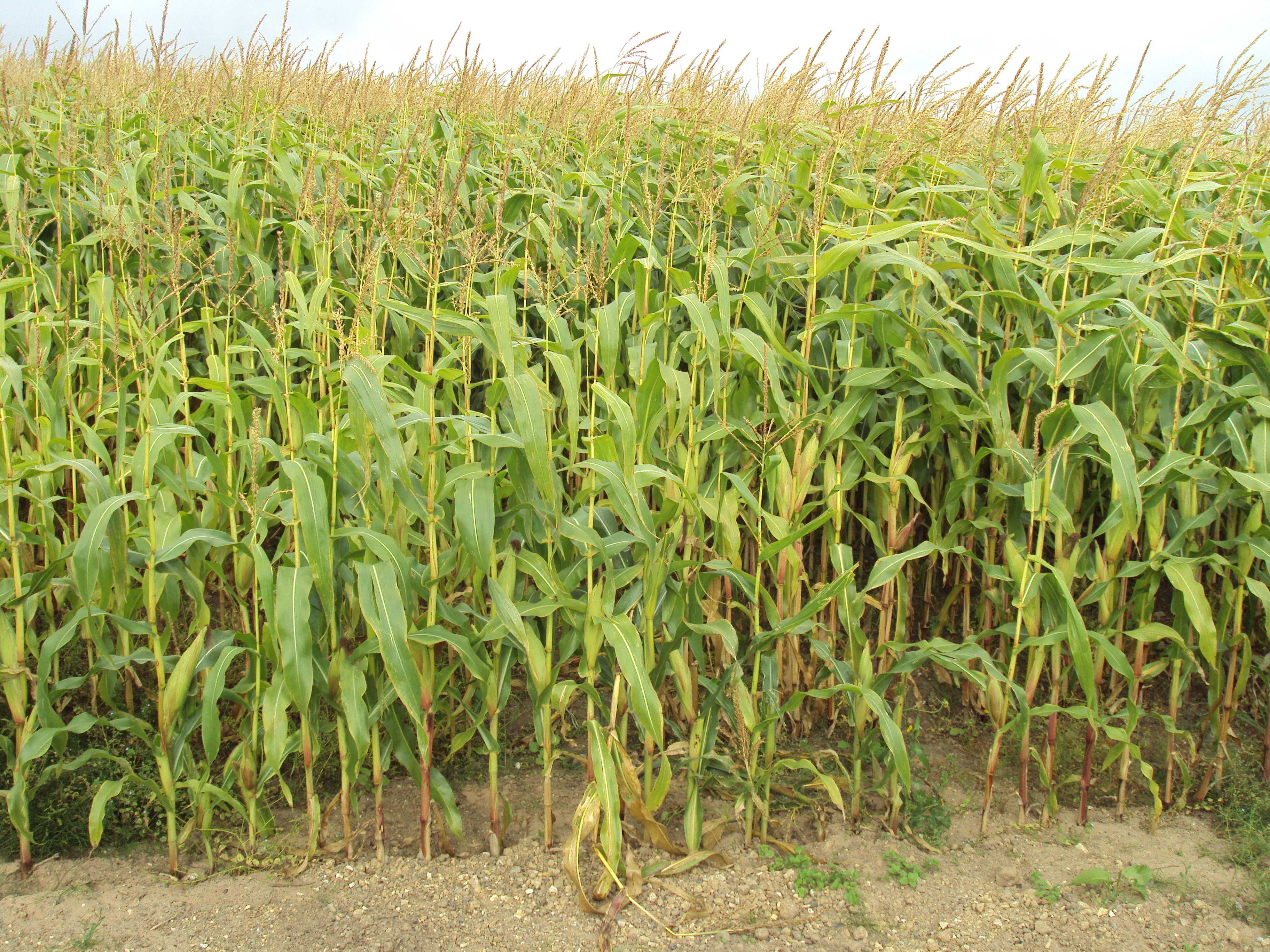 Farmer's crop next to the A5119 Ruthin Road near Mold, Flintshire, Wales.